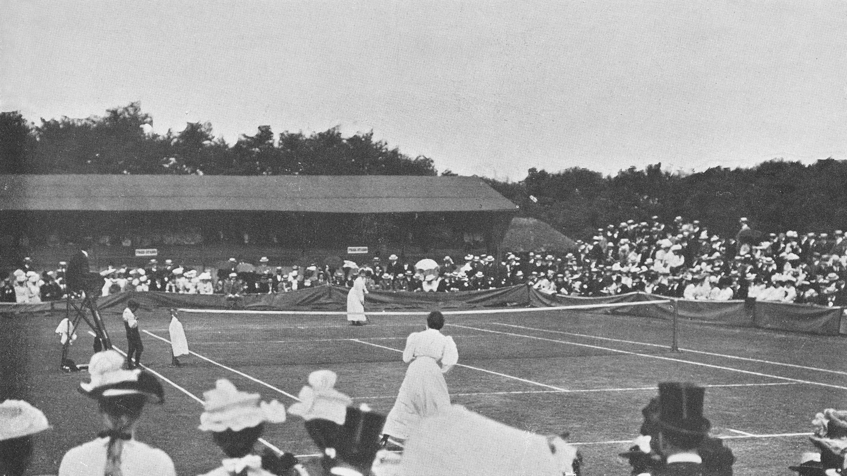 Blanche Bingley Hillyard (in front) vs. Charlotte Cooper Sterry in the finals of the 1901 Wimbledon championships